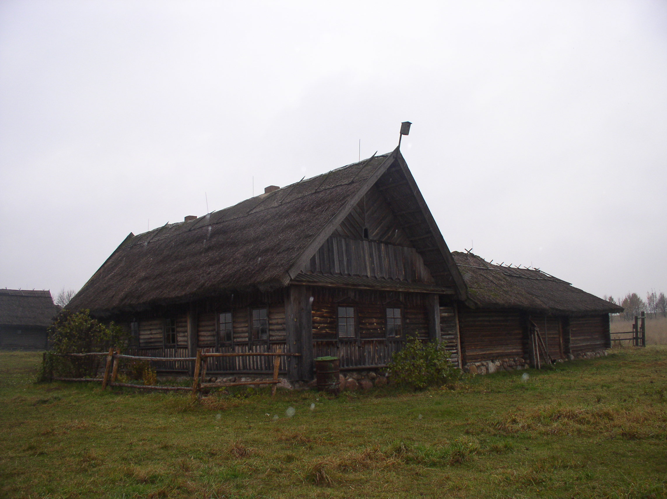 House from Dnieper Region. State museum of folk architecture and life, Belarus.